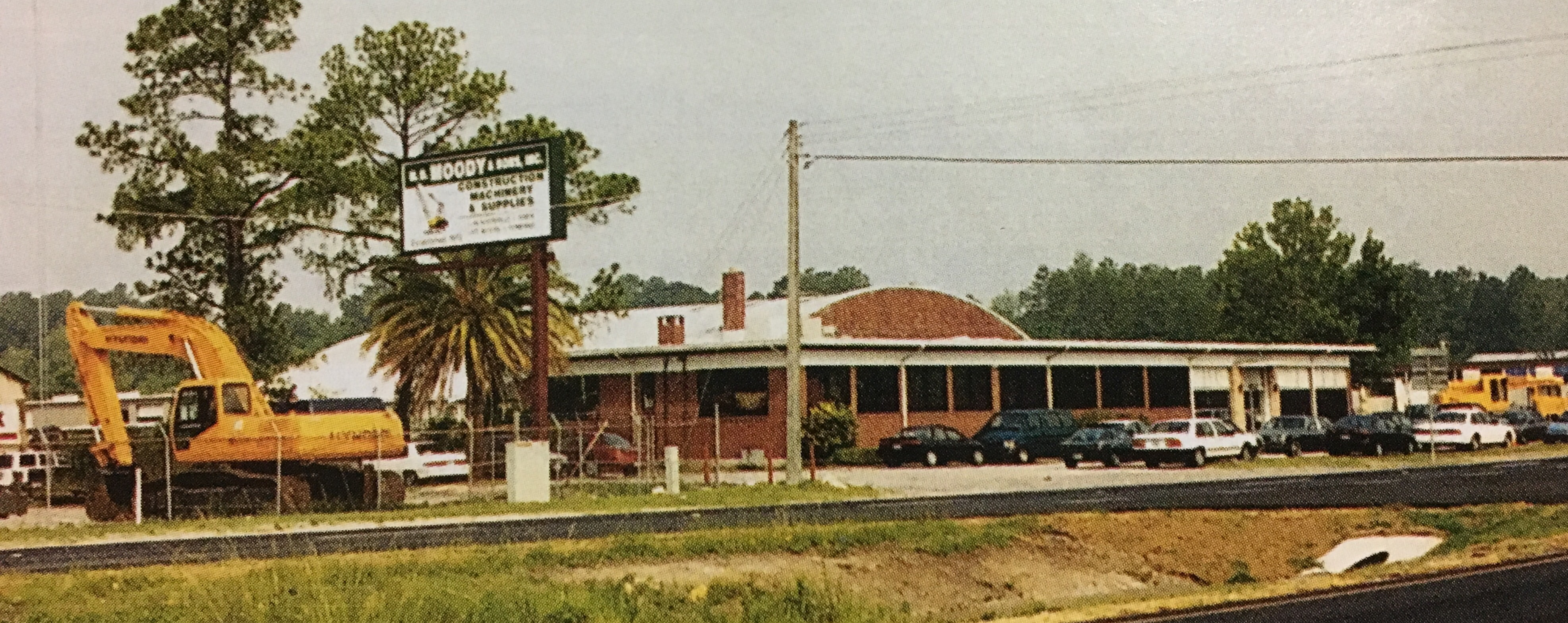 Photo of MD Moody and Sons around 1998 by me.